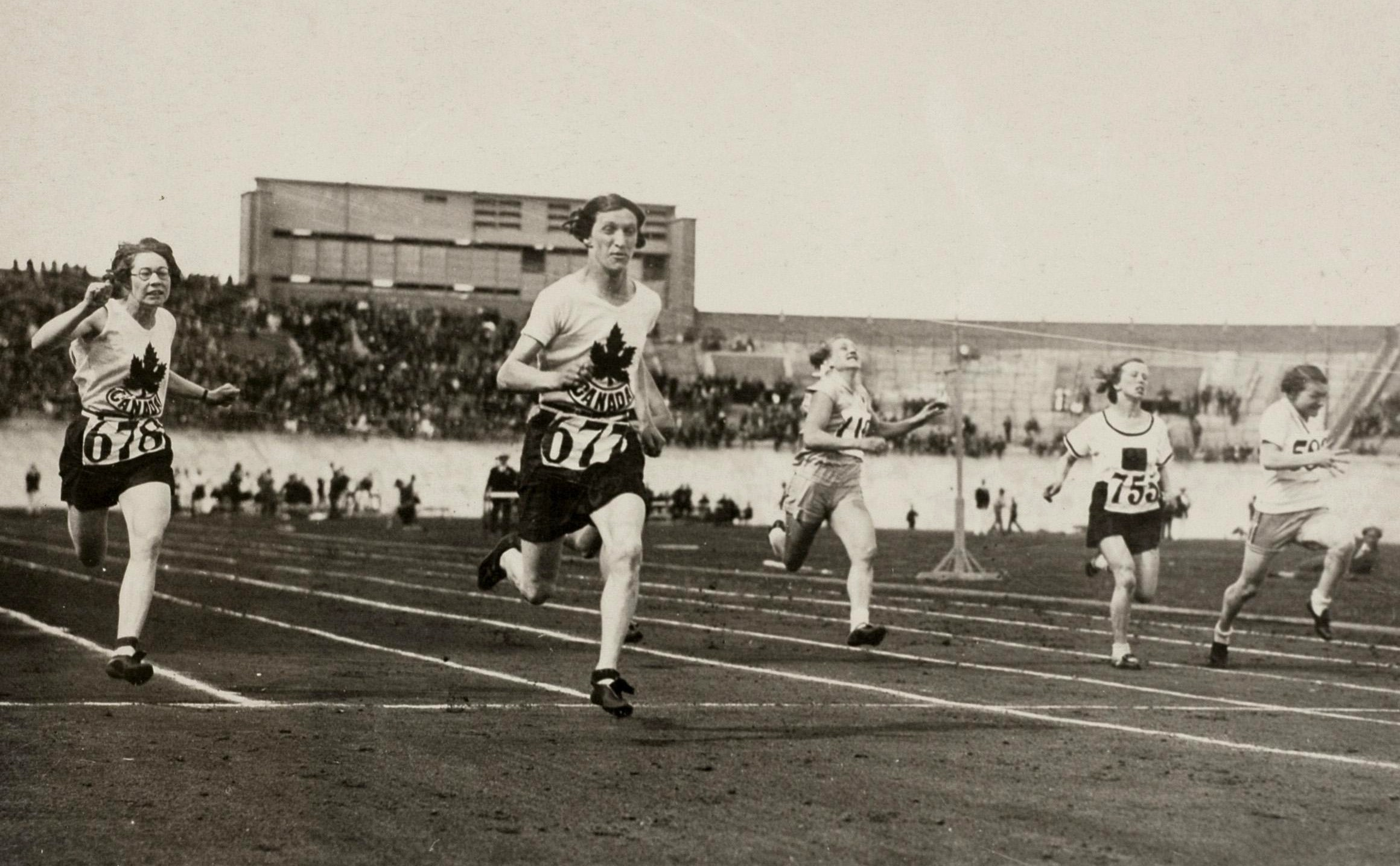 Ethel Smith (left) and Bobbie Rosenfeld (second from left) of Canada, perhaps at semi-final in the women's 100 meters at the 28th Summer Olympic Games in Amsterdam